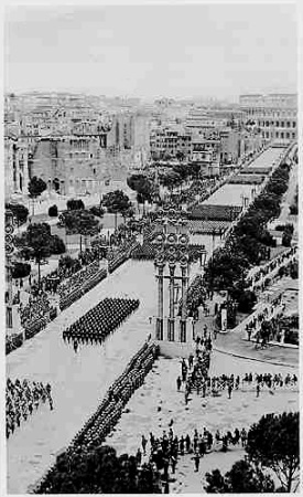 Fascist military parade on the Via dei Fori Imperiali, Rome, Italy in the 1930s